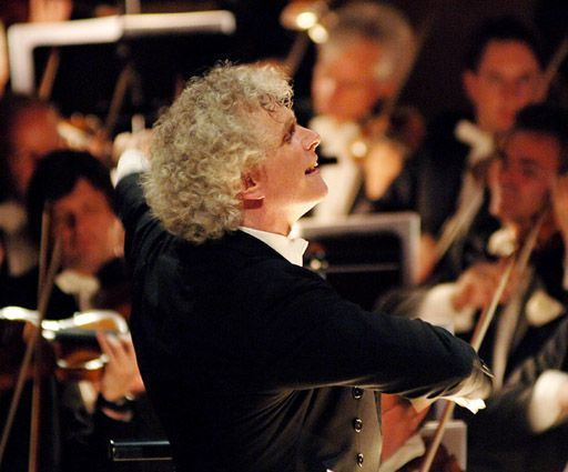 Sir Simon Rattle conducting the Berlin Philharmonic Orchestra (BPO) in Das Rheingold by Richard Wagner